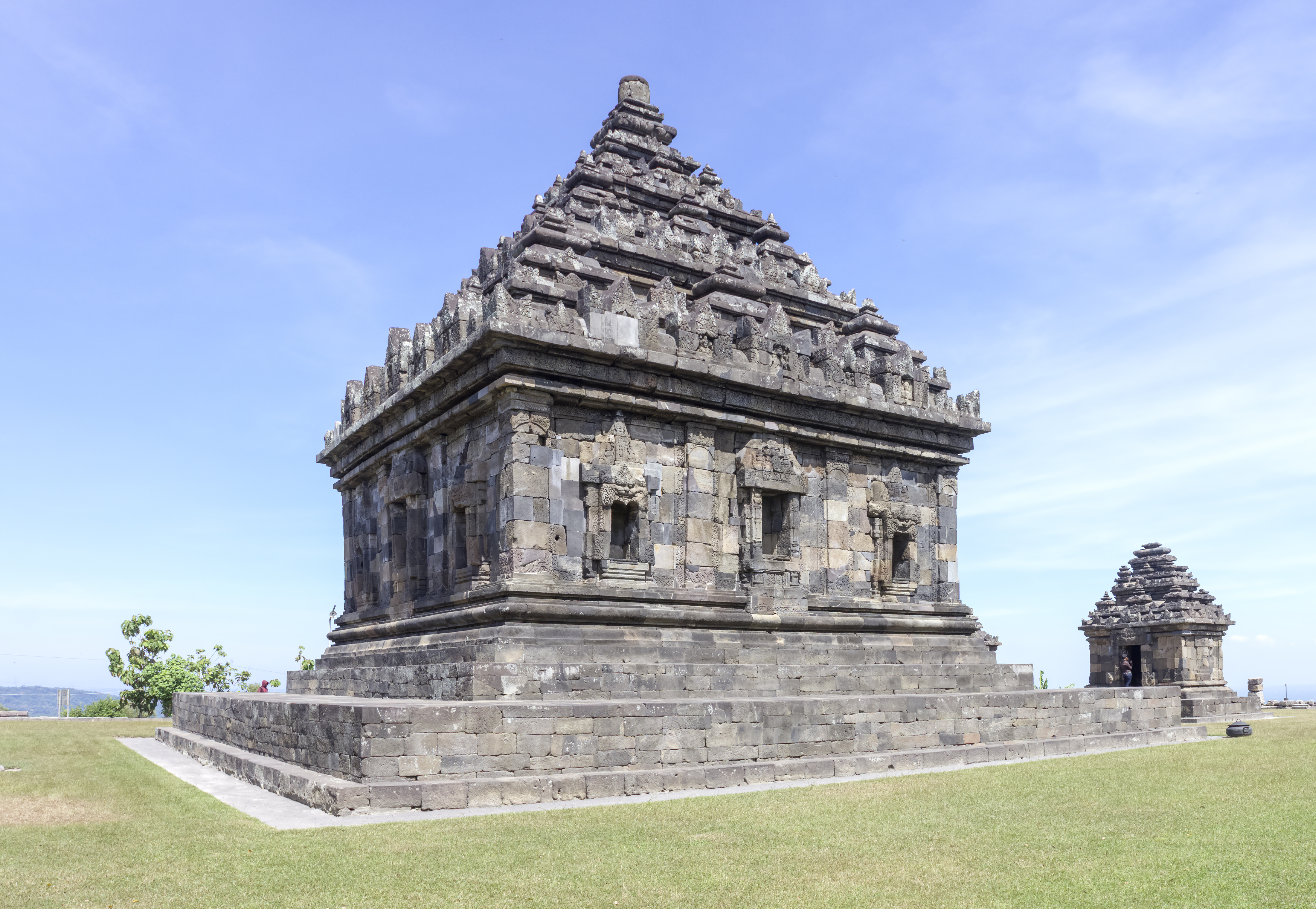 Main temple at Candi Ijo, Sleman, Yogyakarta, 2014-05-31